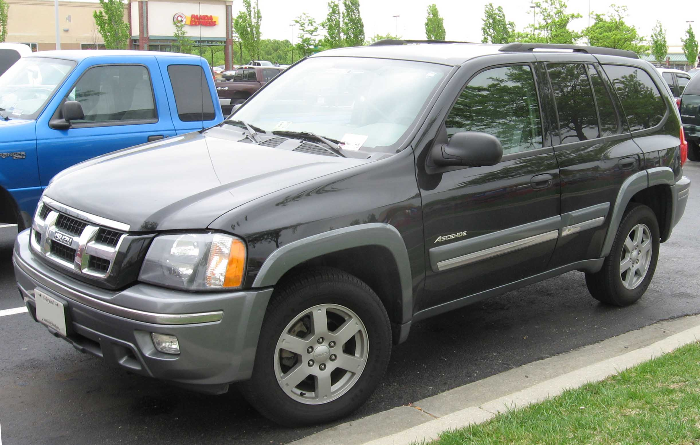 Isuzu Ascender photographed in Clinton, Maryland, USA.